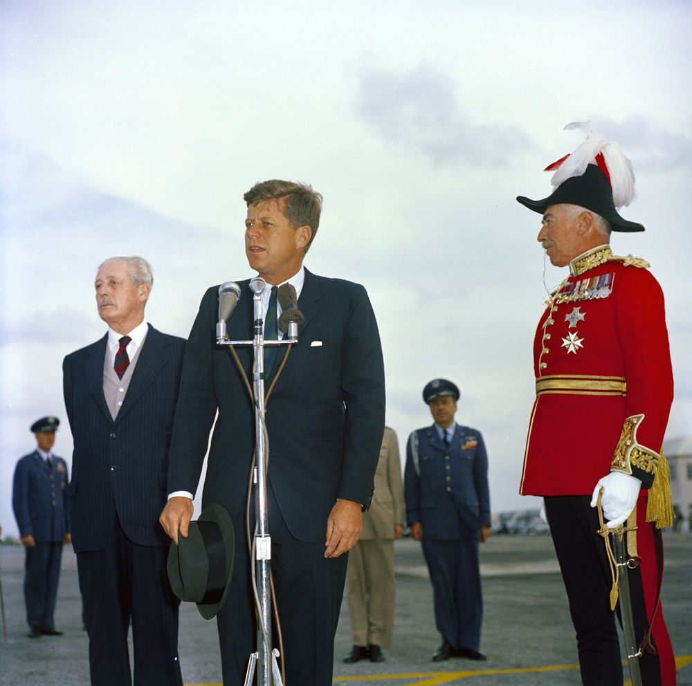 President of the United States John Fitzgerald Kennedy at Kindley Air Force Base on his arrival in the British Colony of Bermuda on the 21st of December, 1961, to attend meetings with the Prime Minister of the United Kingdom, Harold MacMillan, standing at left. At right, in the red tunic, is Governor and Commander-in-Chief of Bermuda, Major-General Sir Julian Alvery Gascoigne. To the rear, at right, is the United States Air Force Aide to President Kennedy, Brigadier General Godfrey T. McHugh.